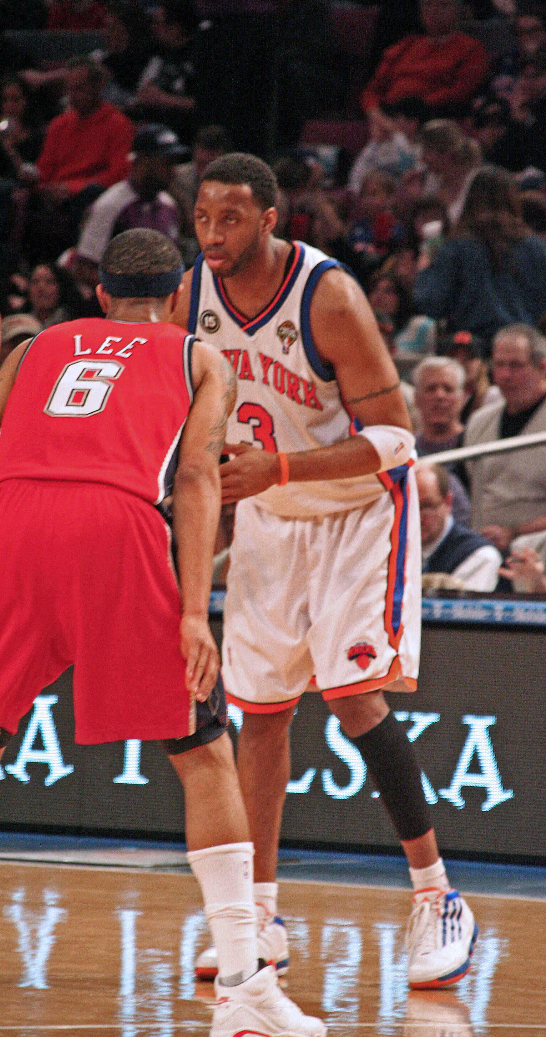 Tracy McGrady of the New York Knicks